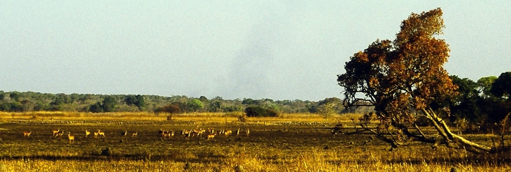 A view of puku in Kasanka National Park in Zambia